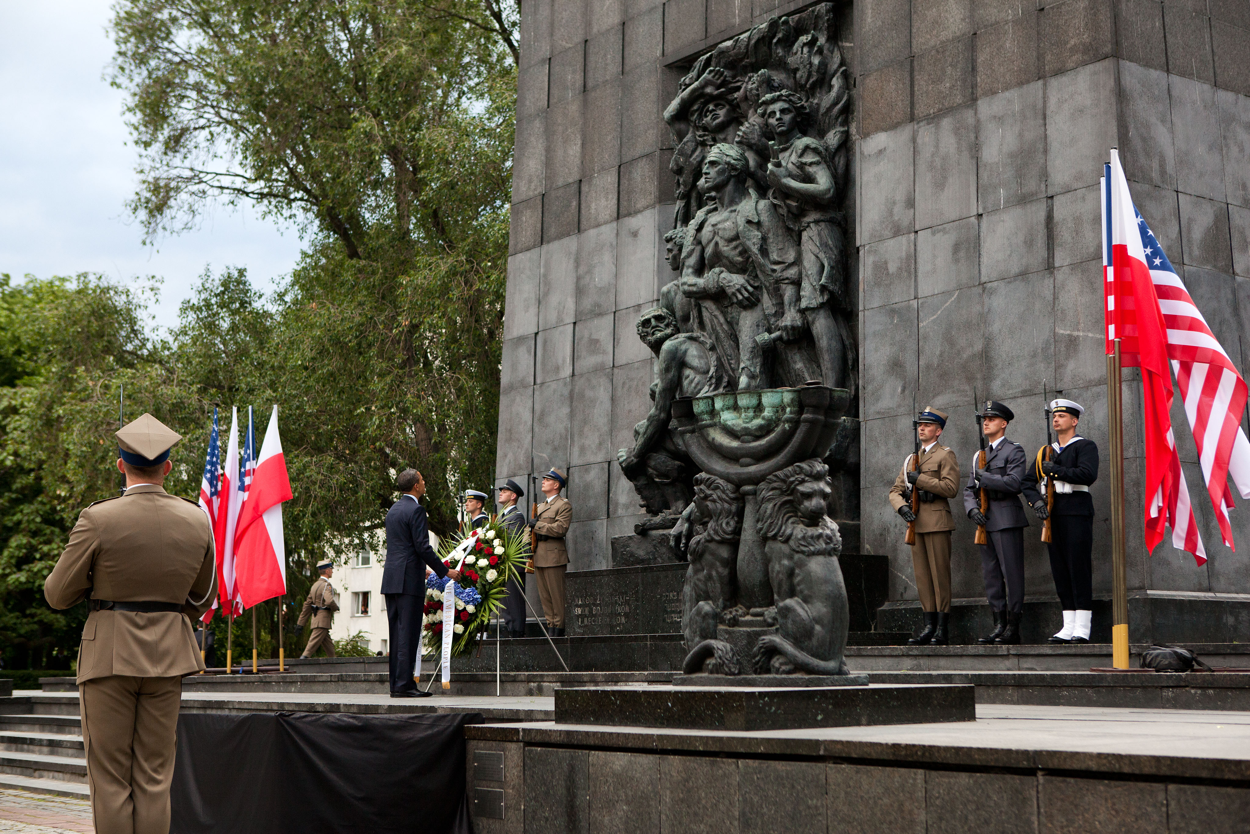 President Barack Obama lays a wreath at the Warsaw Ghetto Memorial in Warsaw, Poland, May 27, 2011. (Official White House Photo by Pete Souza) This official White House photograph is in the public domain from a copyright perspective, so while restrictions such as personality or privacy rights may apply, in general, manipulations are allowed.